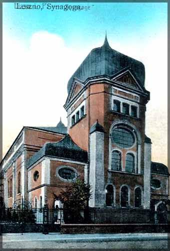 New Synagogue in Leszno